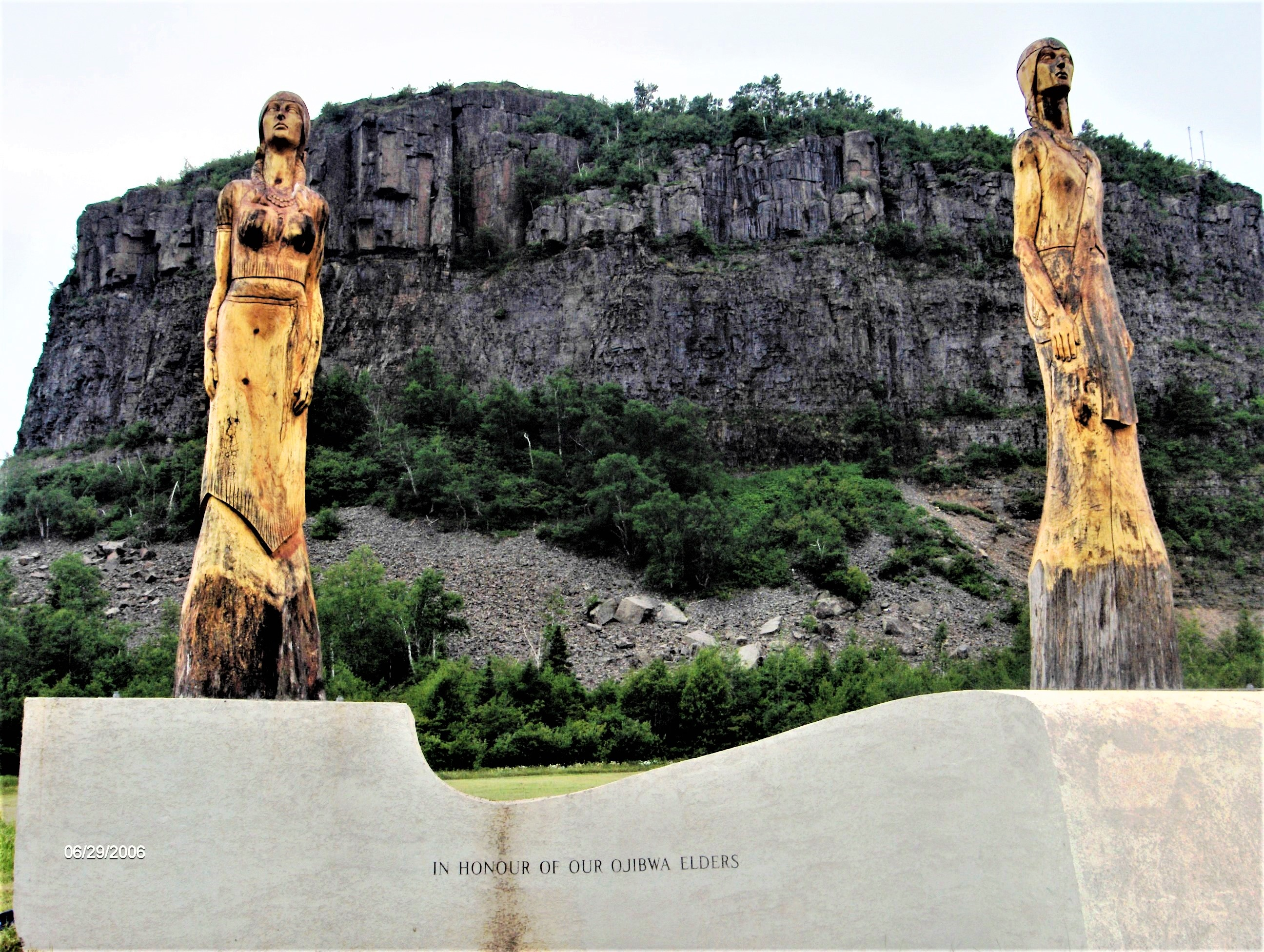 Mount McKay- Indian Reserve of the Fort William First Nation-Thunder Bay-Ontario